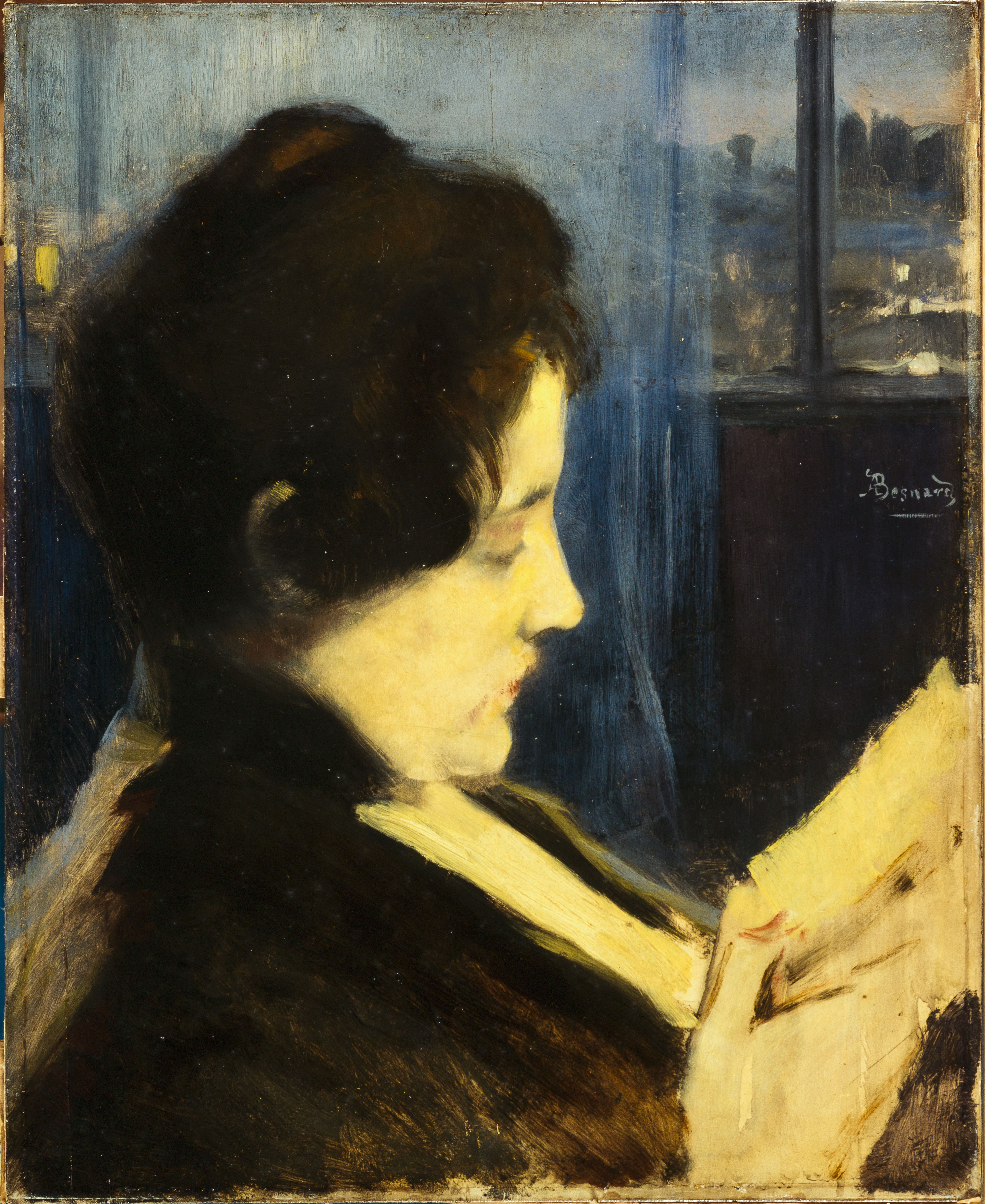 Portrait of Charlotte Besnard